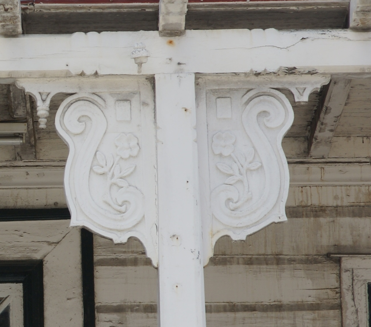 Wagenwegstraat 47, Paramaribo, Surinam. Detail of supporting column of balcony.